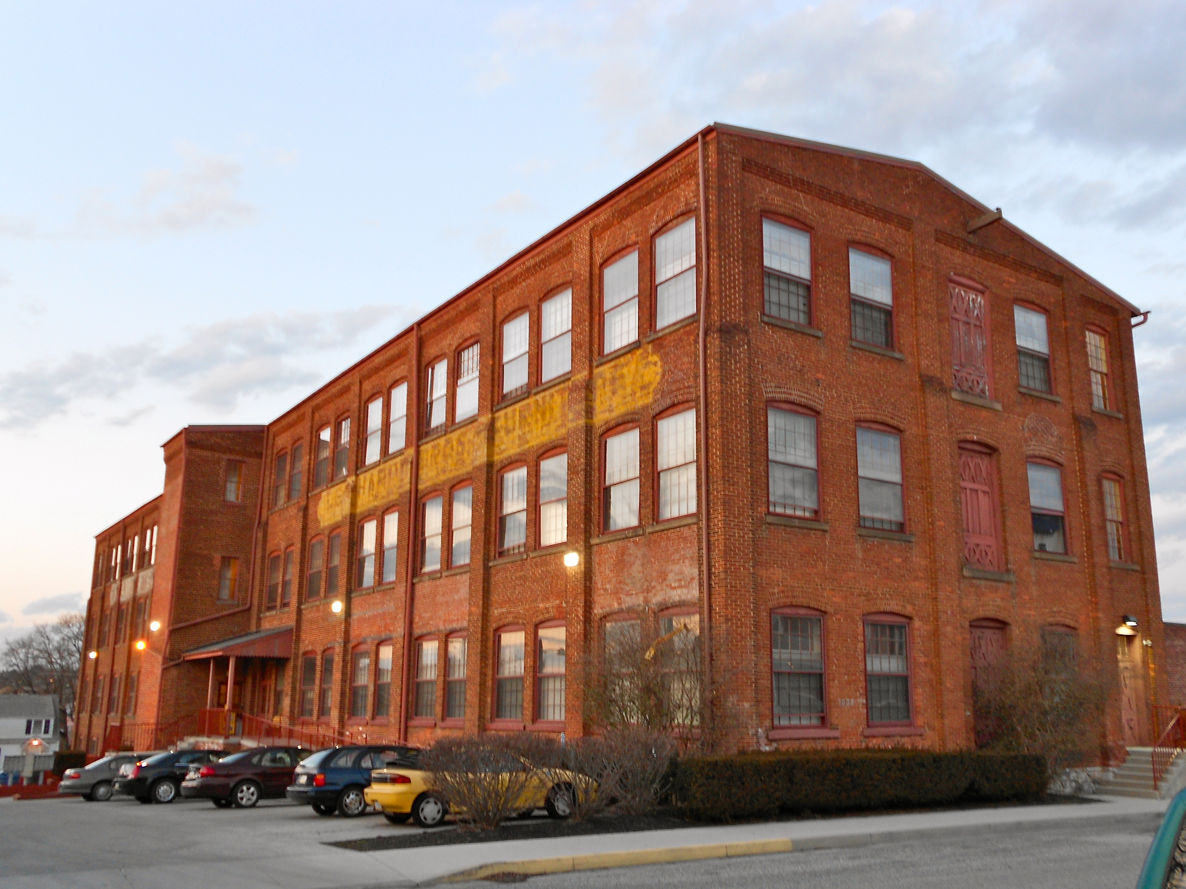 Ashley and Bailey Company Silk Mill on the NRHP since February 21, 1991. At 1237 West Princess Street, in West York, York County, PA